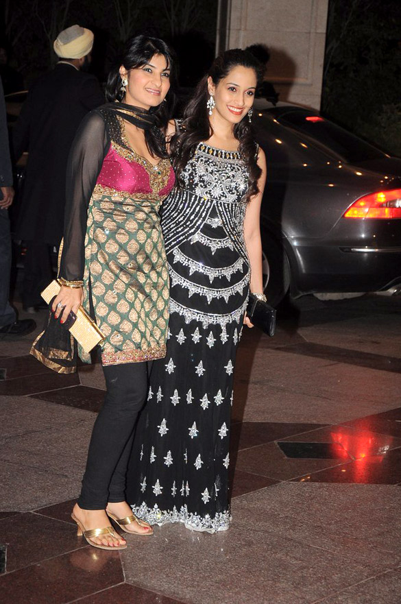 Pony Verma, Shweta Pandit at Esha Deol's sangeet ceremony